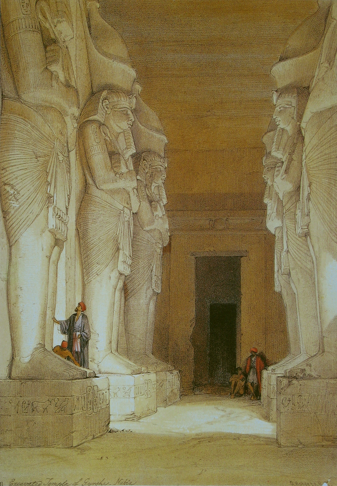 Rock Temple of Gerf Hussein/Egypt